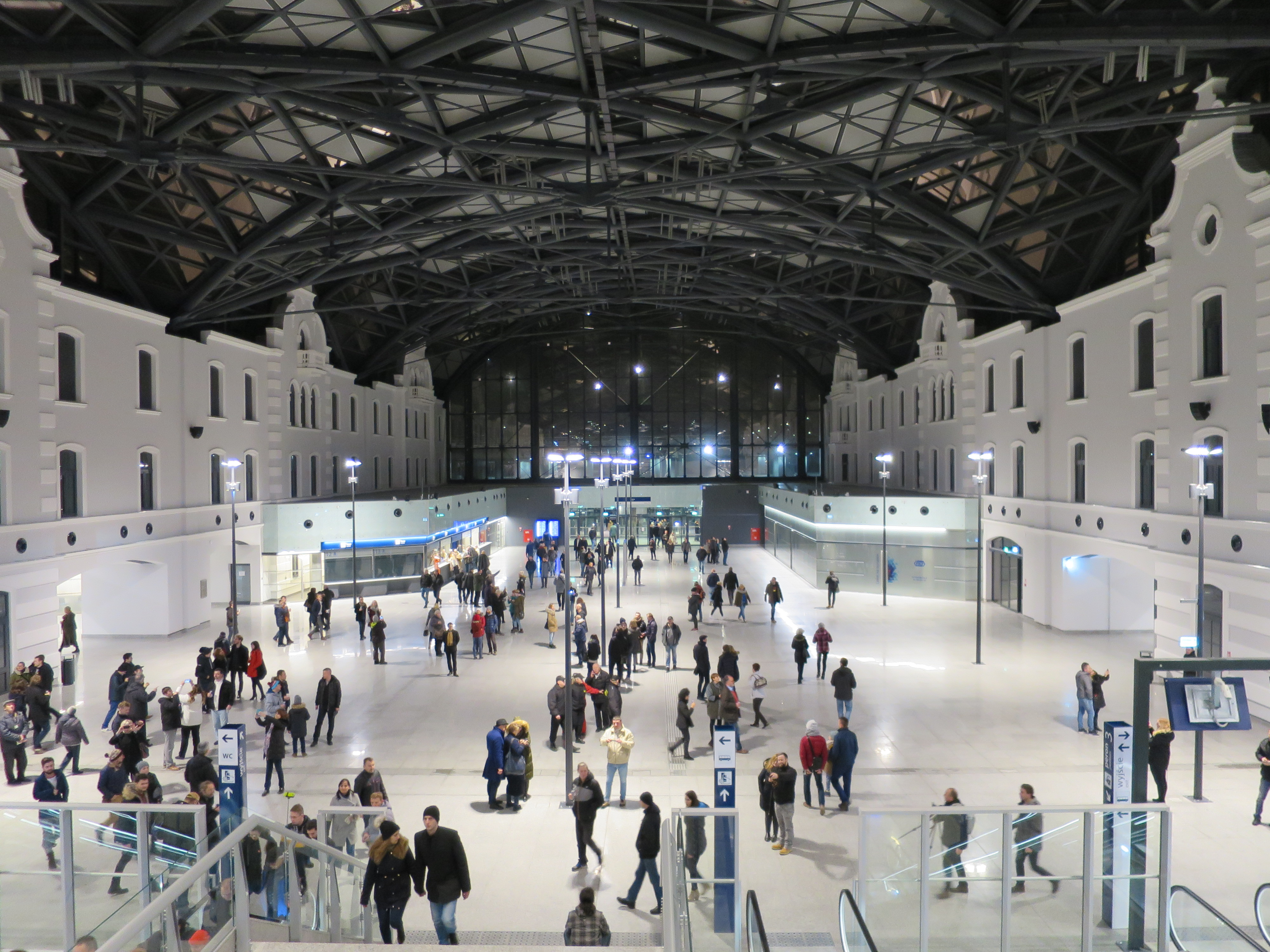 The making of this document was supported by Wikimedia Polska Association, within Wikigrant no. WG 2016-56. Łódź Fabryczna - hol dworca